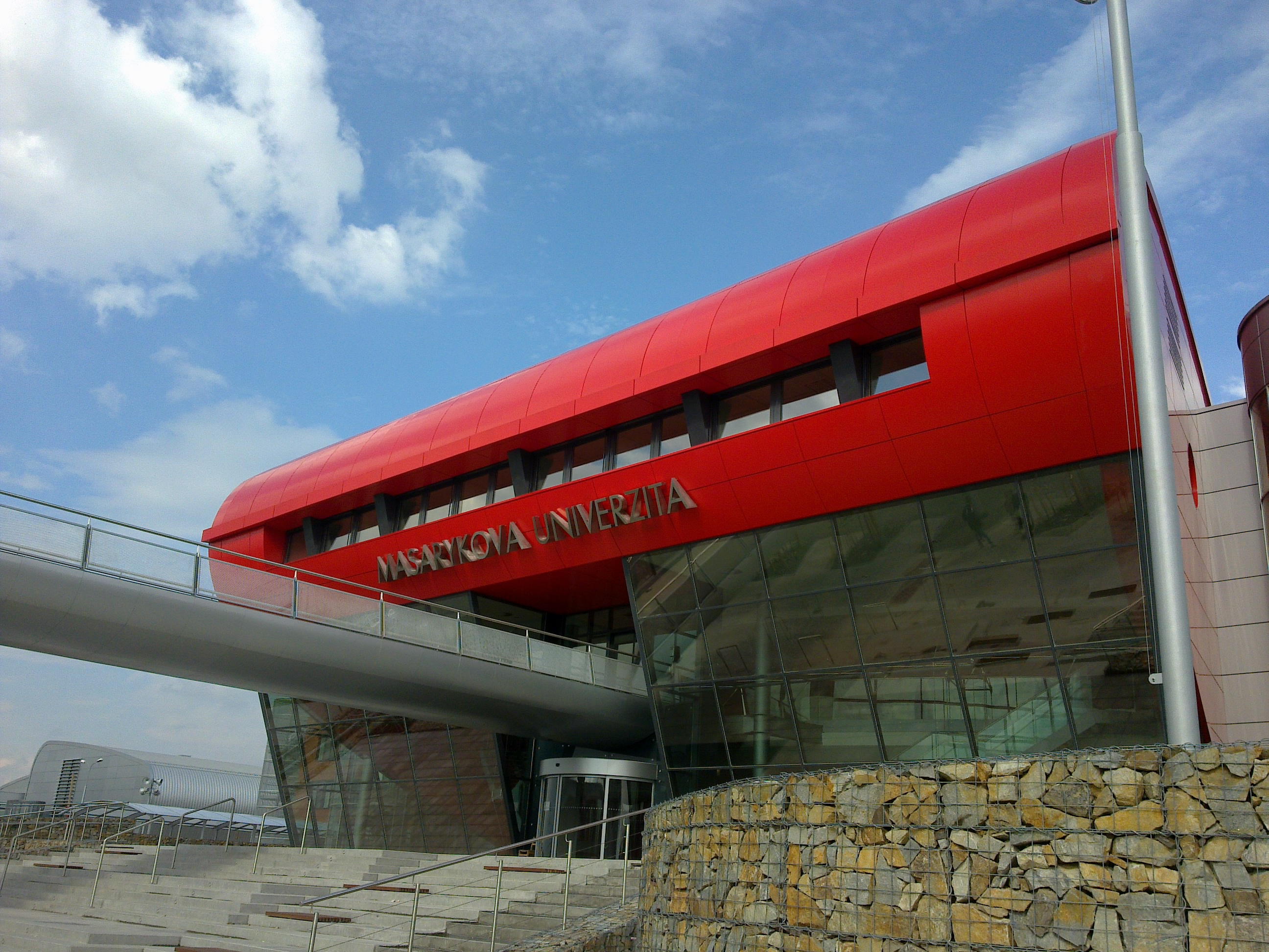 Masaryk University new campus main enterance, opened may 2010